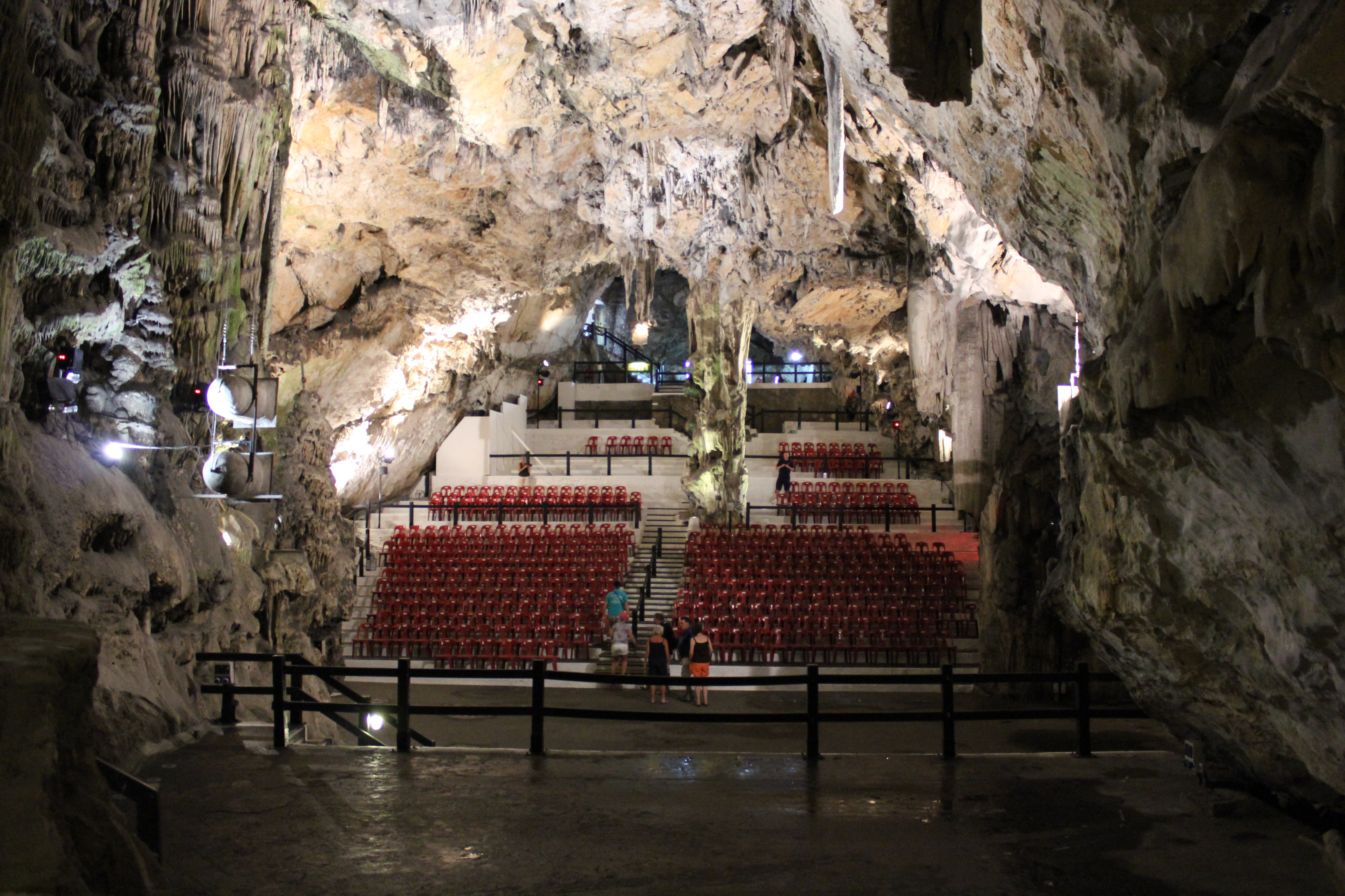 Auditorium in St Michael's Cave, Gibraltar